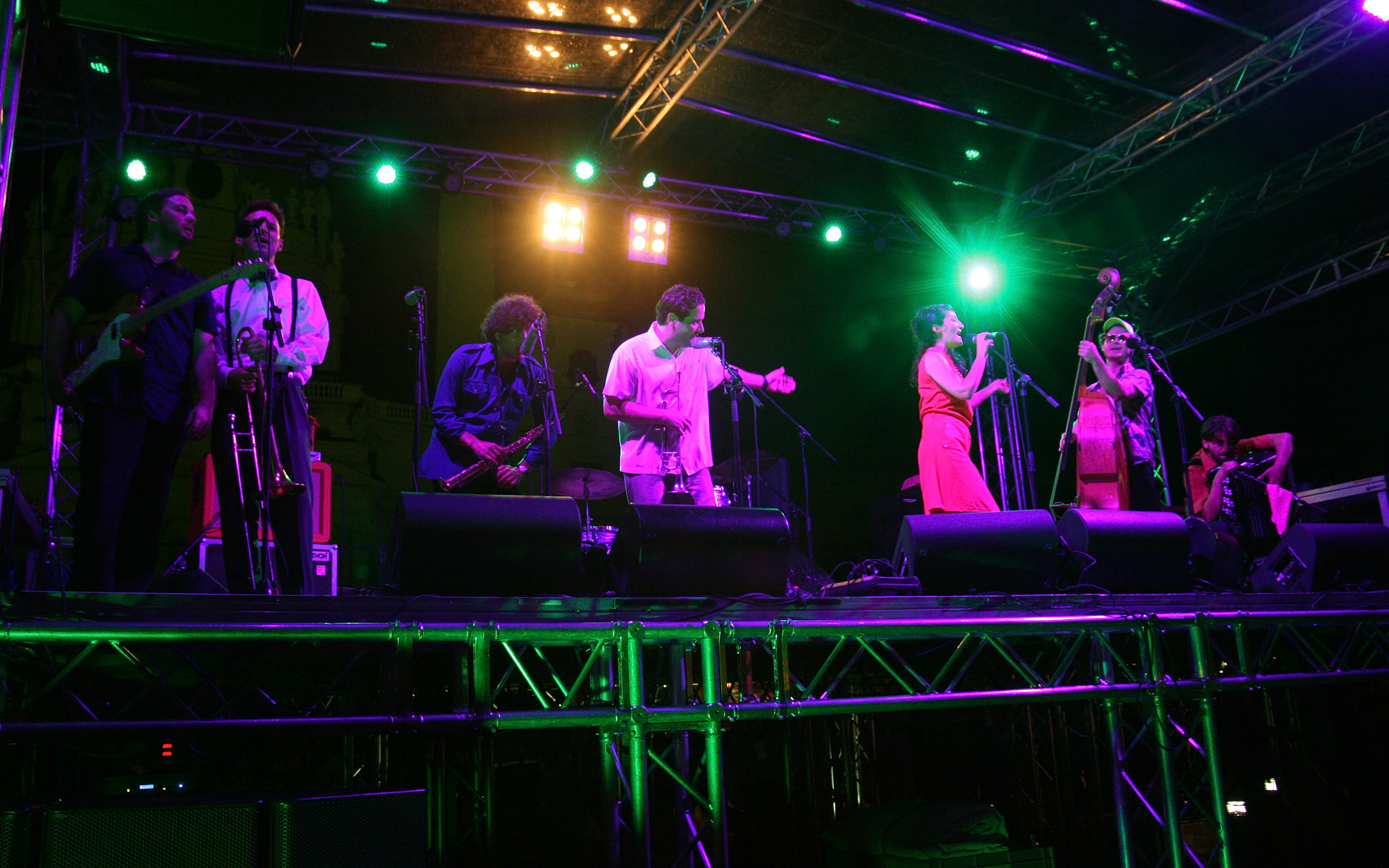 Fatima Spar and The Freedom Fries at Popfest 2012 in Vienna, Austria.